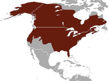 American Mink (Neovison vison) range, with national borders added